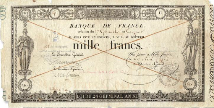 Final version of the 1000 francs "germinal", a French banknote created by the Banque de France in 1803.